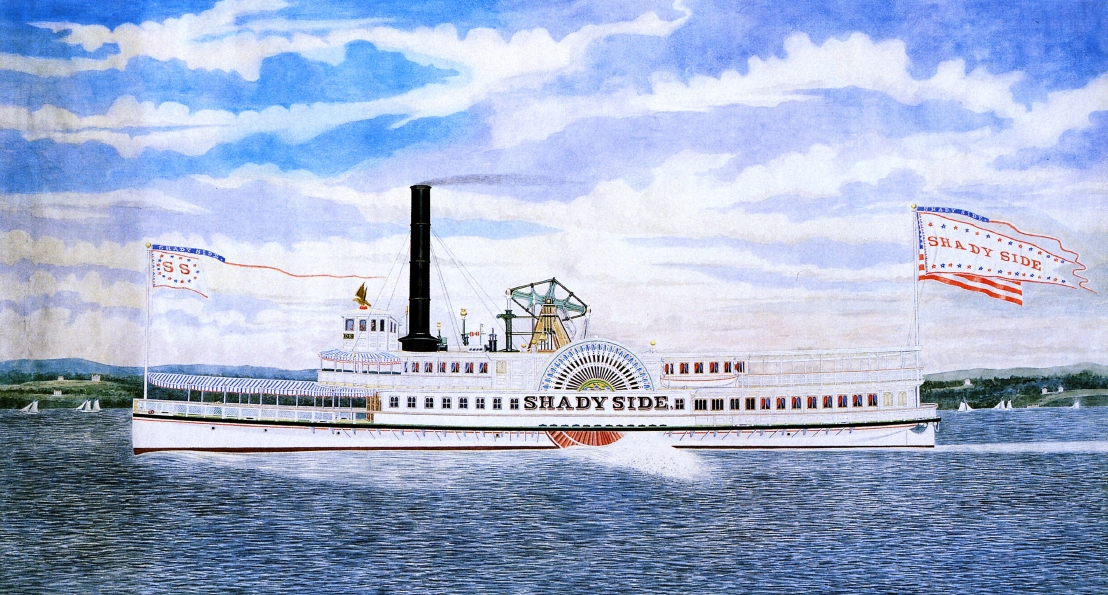 Shady Side, steamboat built 1873, watercolor on paper by James Bard. This vessel served until 1922, and in later years was part of the Black Star Line, which was owned by Marcus Garvey. The Steam Paddle Shady side of New York, official number 115180, tonnage 444, gros 329 net, built at Bulls Ferry, N.J., in 1873. Original owner: The North and East River Steam Boat Company.[1]